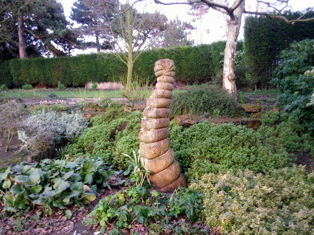 Woodthorpe Grange Park Curious sculpture in the ornamental gardens.